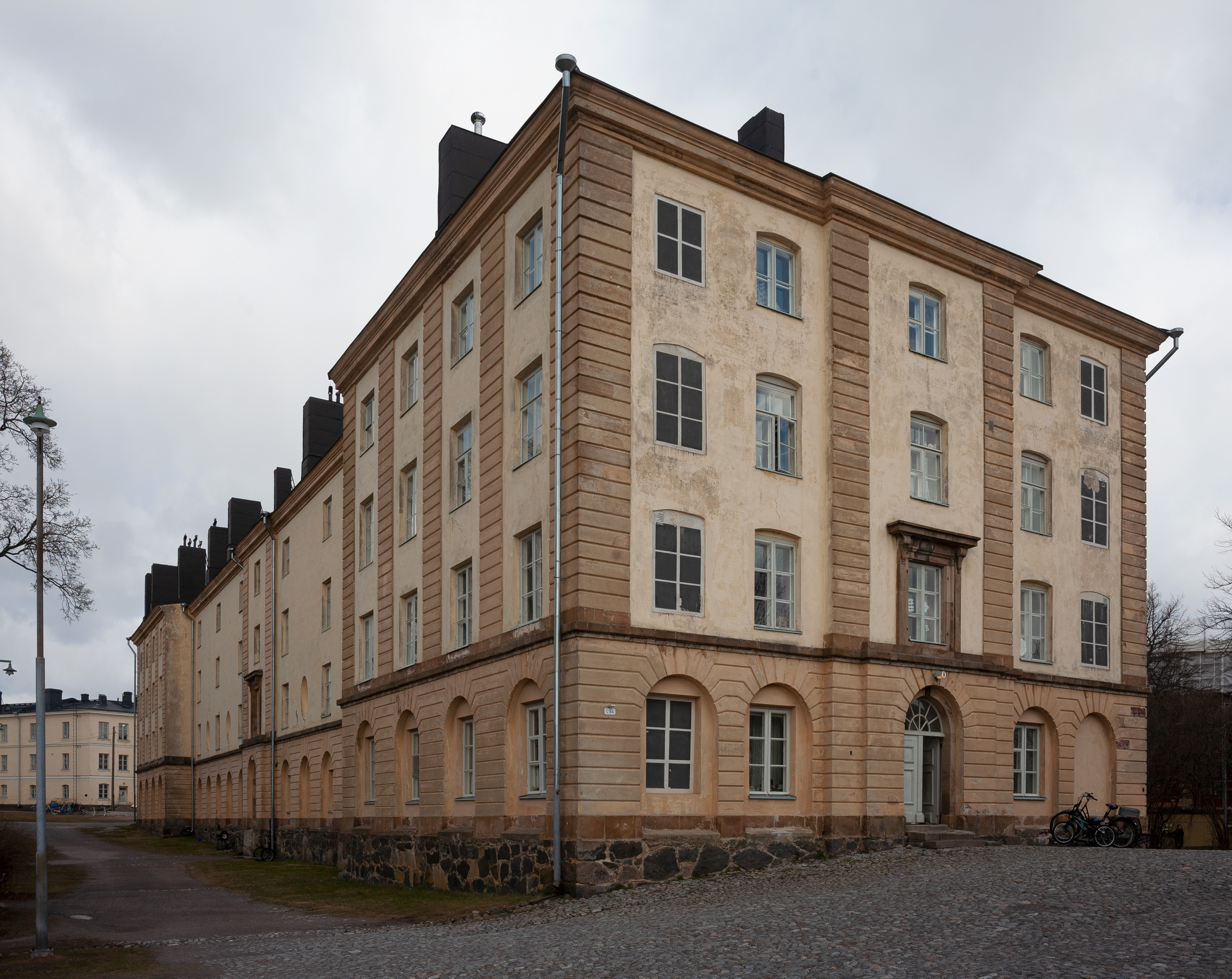 Noah's Ark. Suomenlinna C 54. This residential building is the only executed part of Ehrensvärd’s 1764 plan for the courtyard for the Archipelago Fleet. In the 1770s the building was raised and in the 1780s again by a fourth storey.